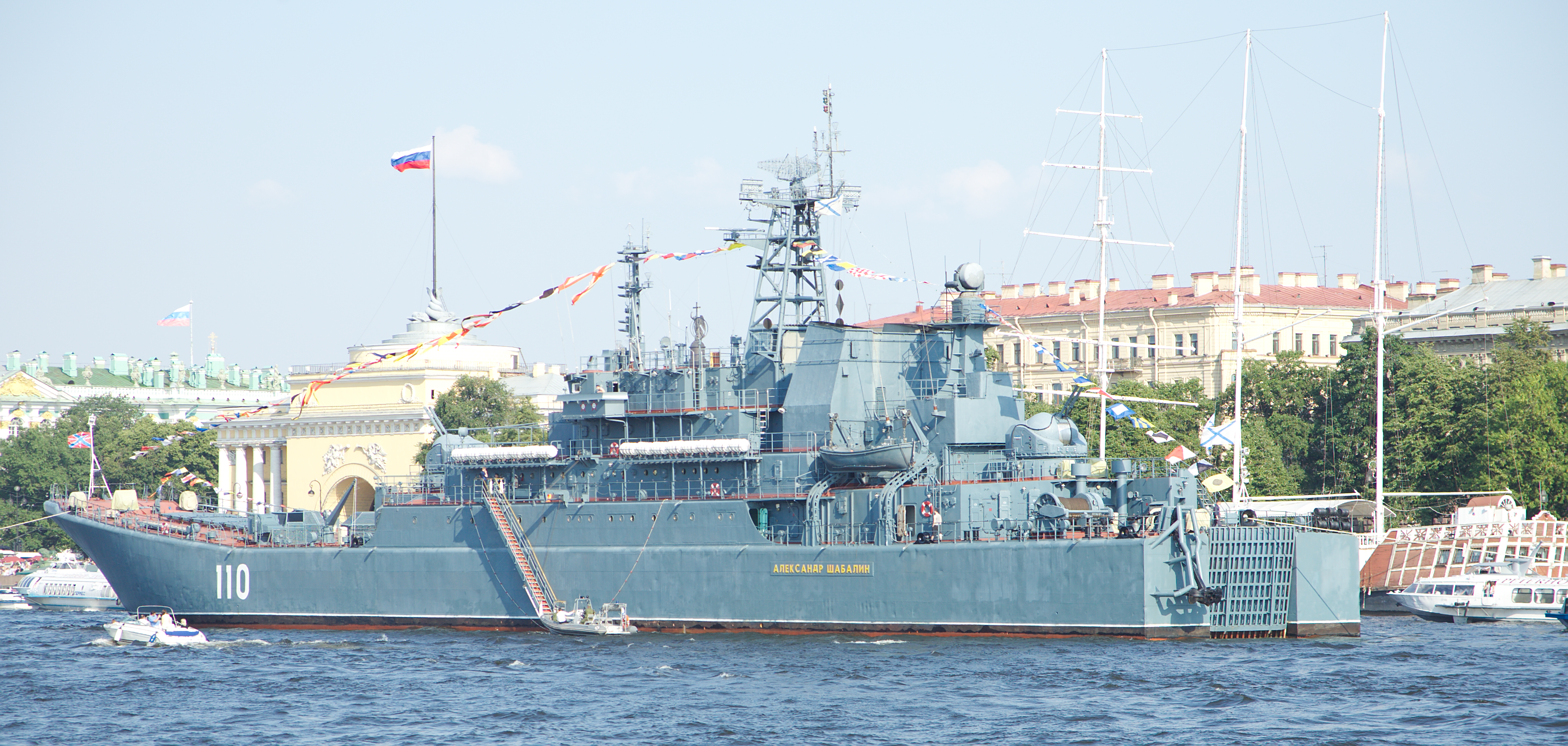 Alexander Shabalin large landing ship. Navy day parad in St. Petersburg, 2012